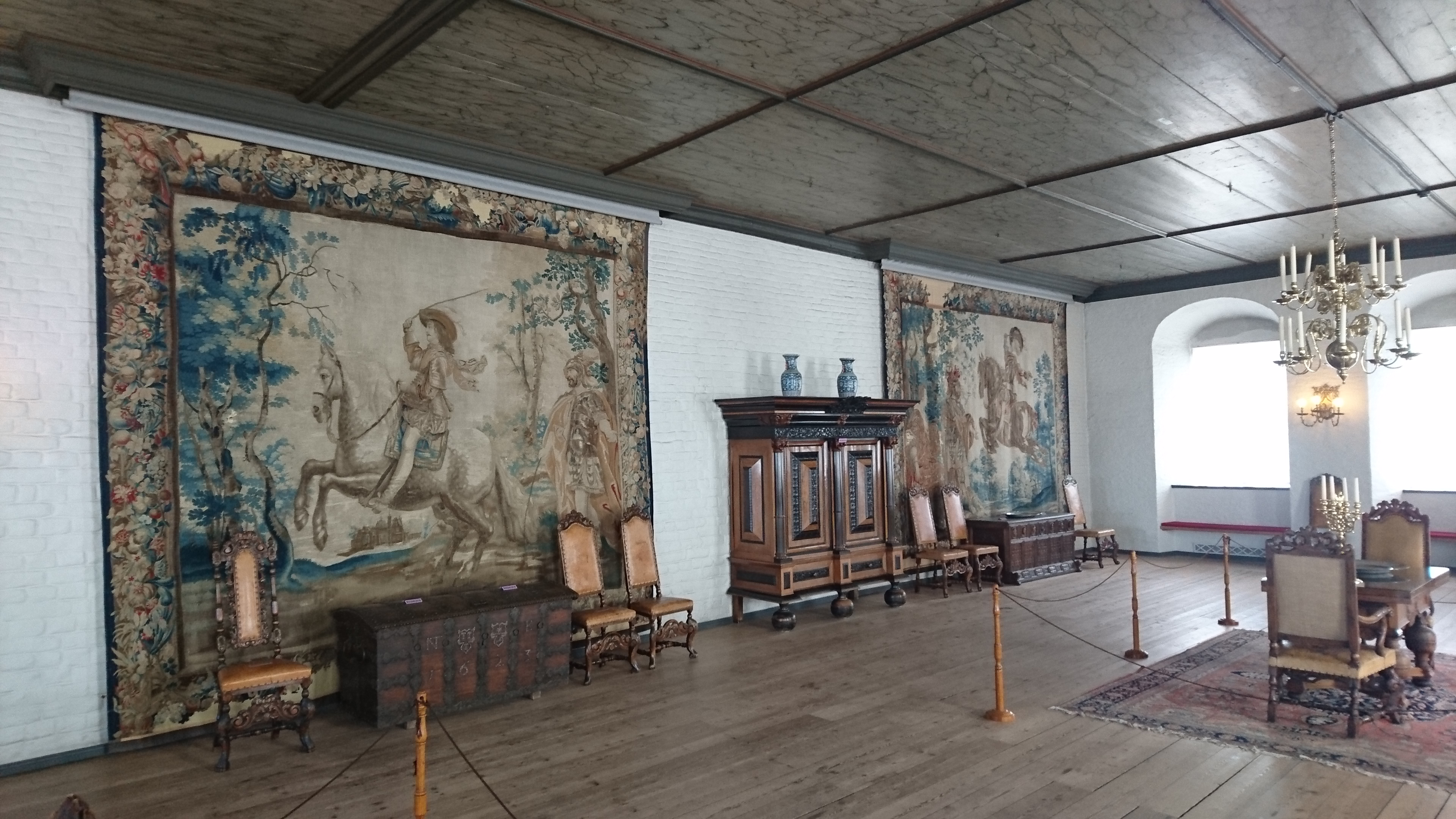 Tapestries in Christian IV's hall at Akershus Castle